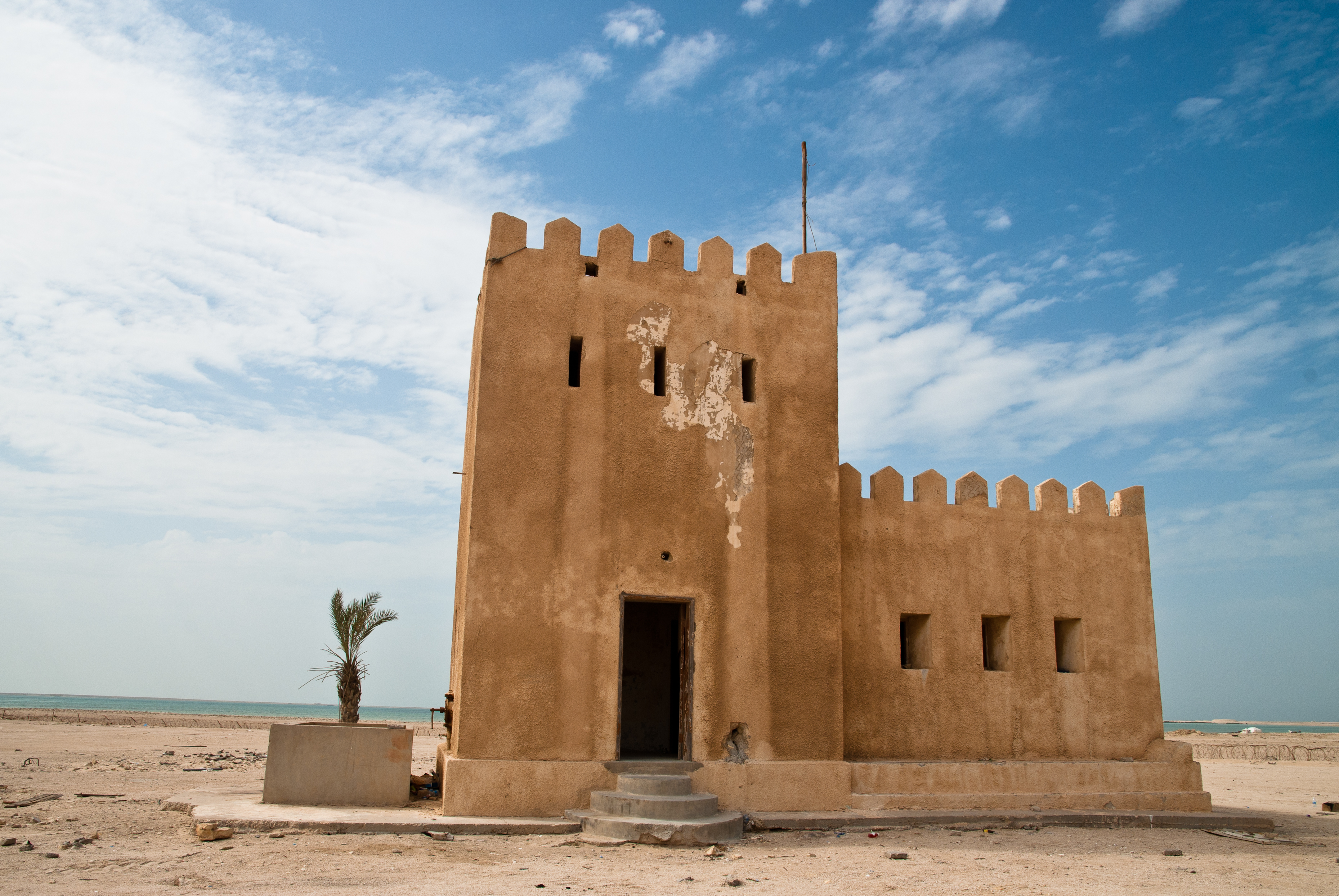 Fort at Kalet Umm Al Ma'a.